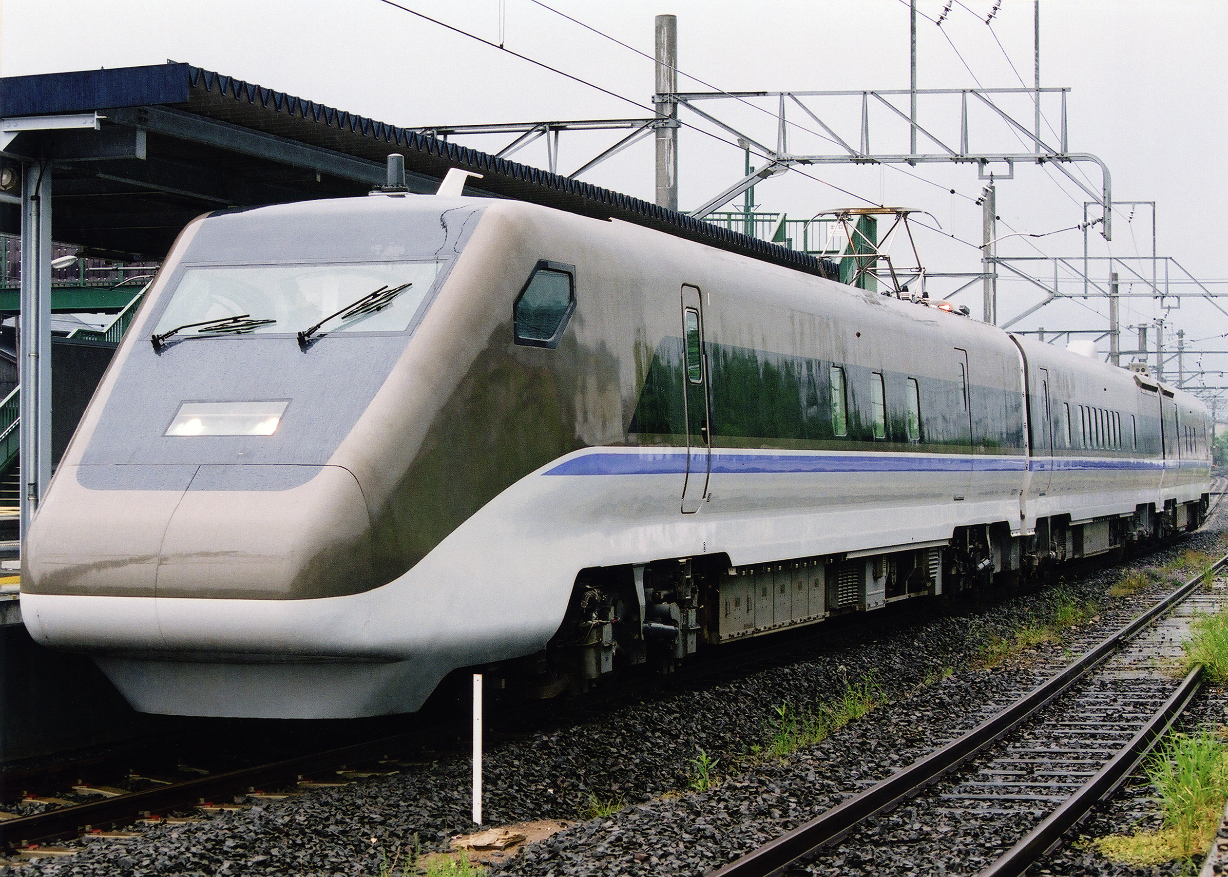 The first-generation Japanese GCT "Free Gauge Train" at Kamogawa Station on the Yosan Line